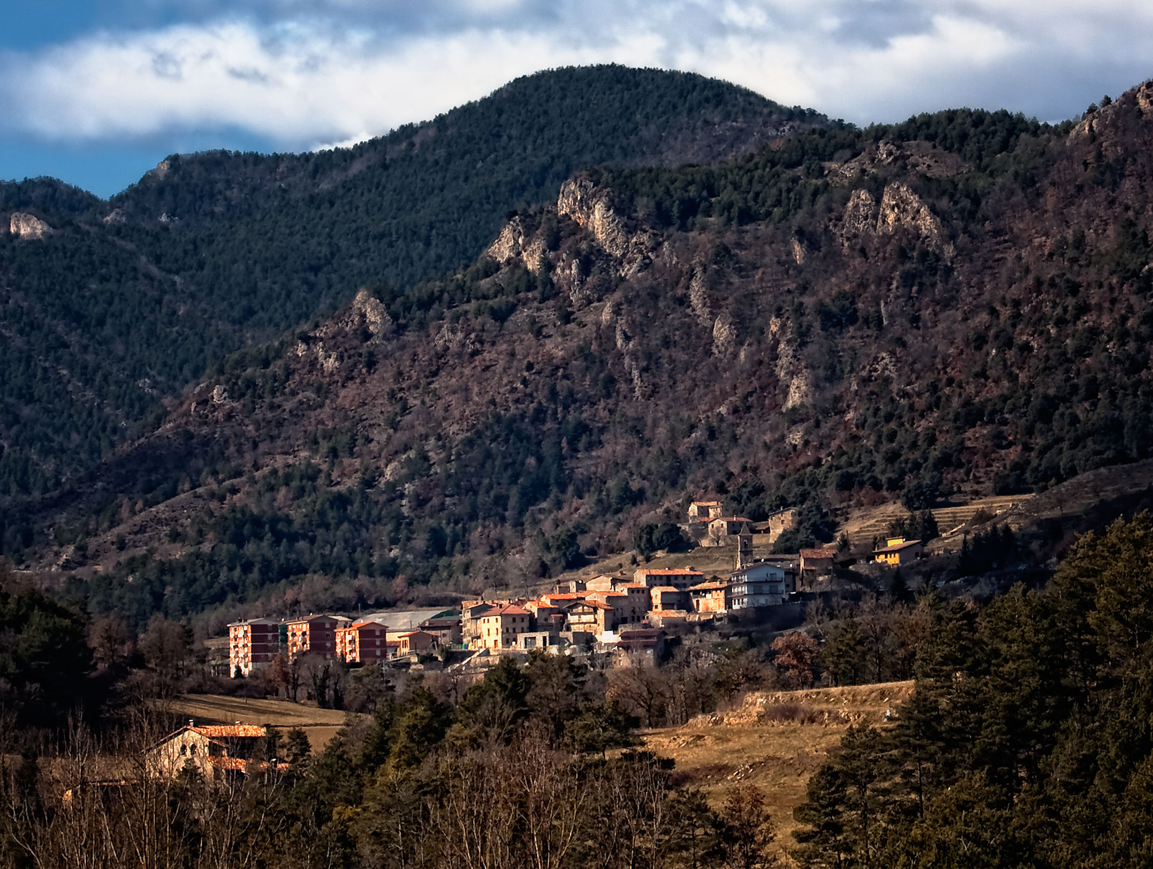 Landscape of Gombrèn (Catalonia, Spain)